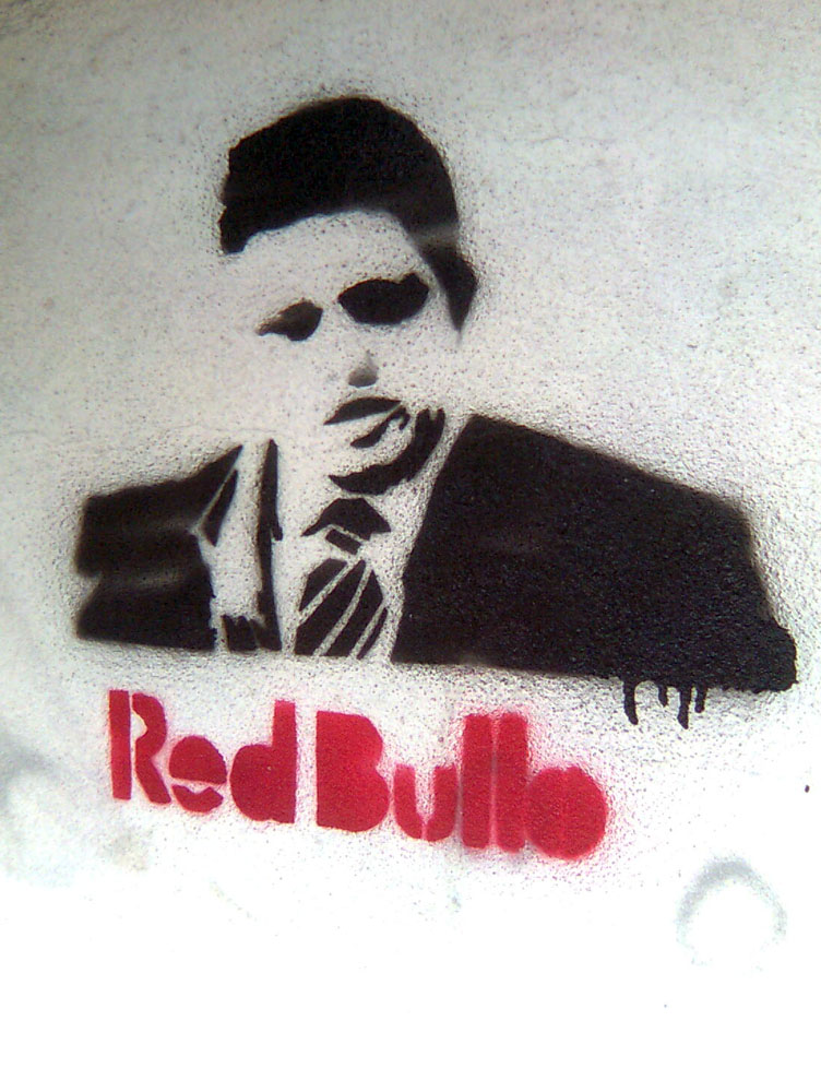 Robert Fico caricature (Bullo means something like blockhead)